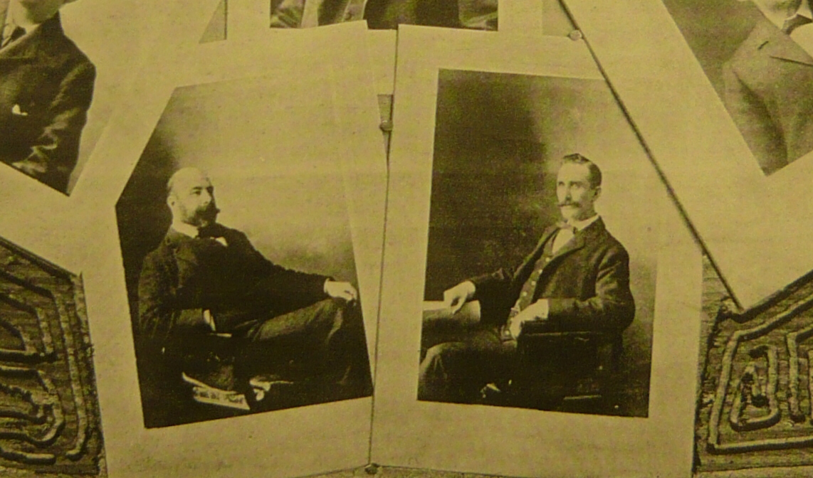 Portraits of Vancouver-based architects John Edmeston Parr (left) and his partner, Thomas Arthur Fee (right). This image was cropped from a composite set of photos on an unnumbered page. Source: "Vancouver of To-Day Architecturally," 1900, no author listed. Title page says "Published by Parr & Fee, Wm. Blackmore, W.T. Dalton, G.W. Grant, R.M. Fripp".